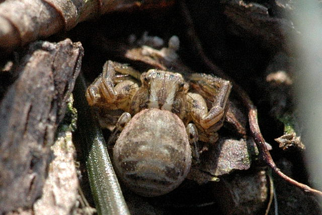 female Xysticus cristatus from Commanster, Belgian High Ardennes . Wikispecies has an entry on: Xysticus cristatus